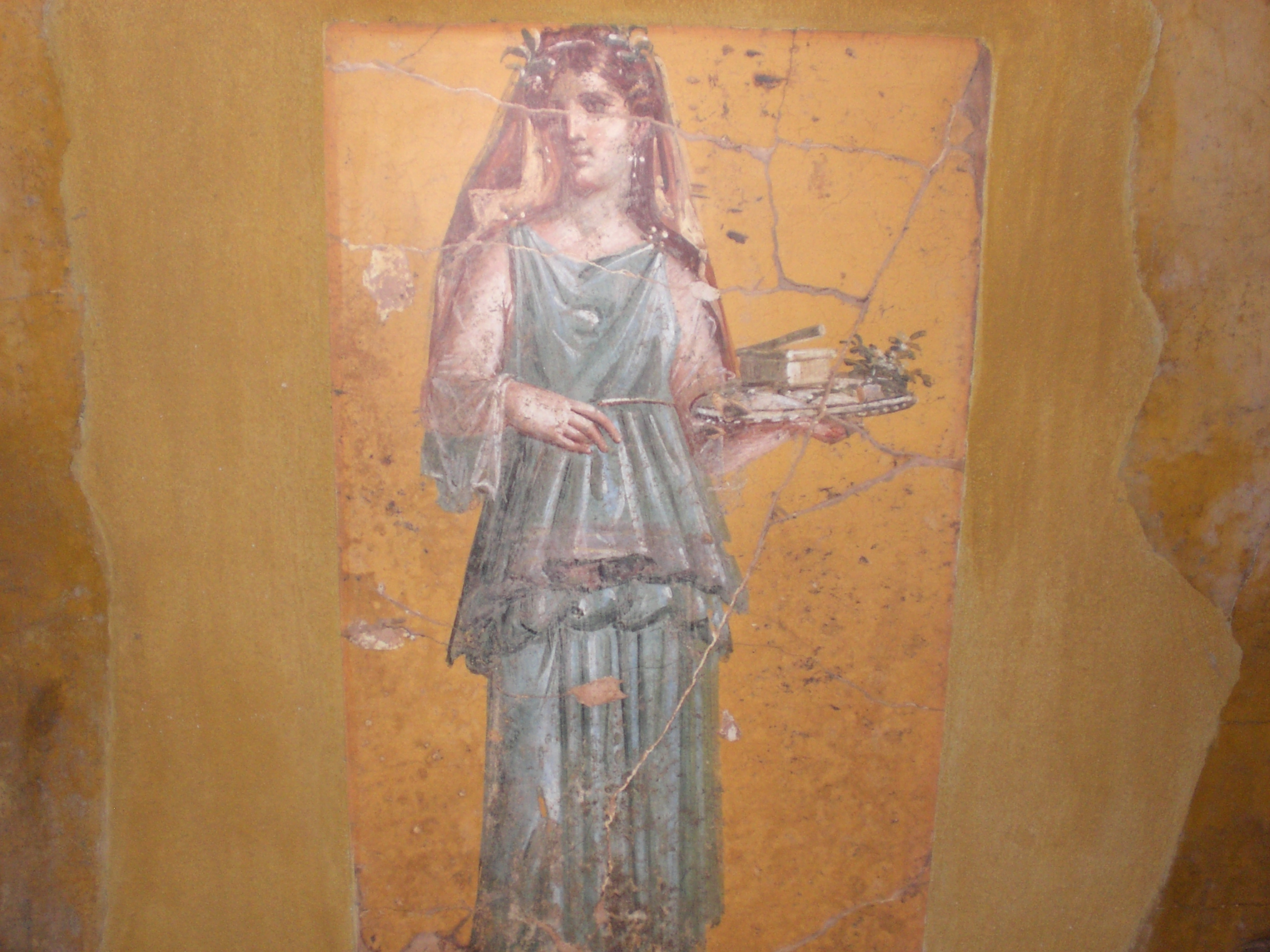 Fresco of woman with tray in Villa San Marco of Stabiae